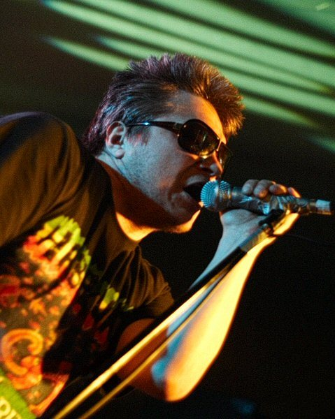 Muniek Staszczyk during T.Love's concert in Rzeszów, 2006